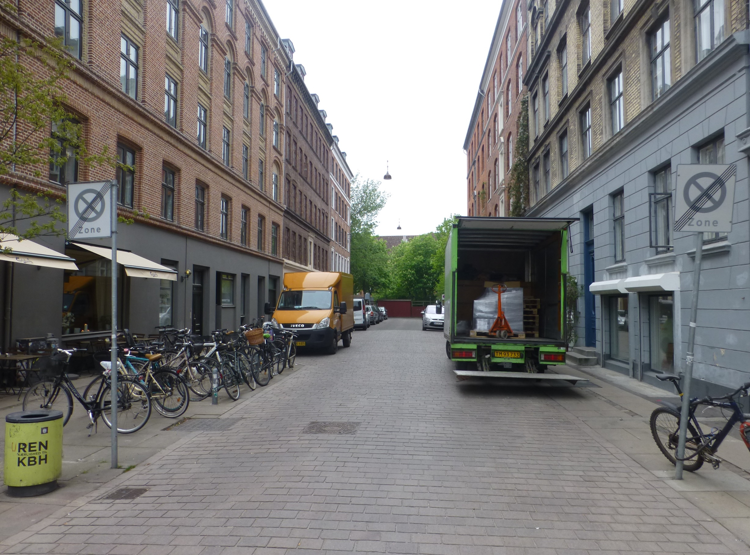 The street Solitudevej in Nørrebro in Copenhagen.